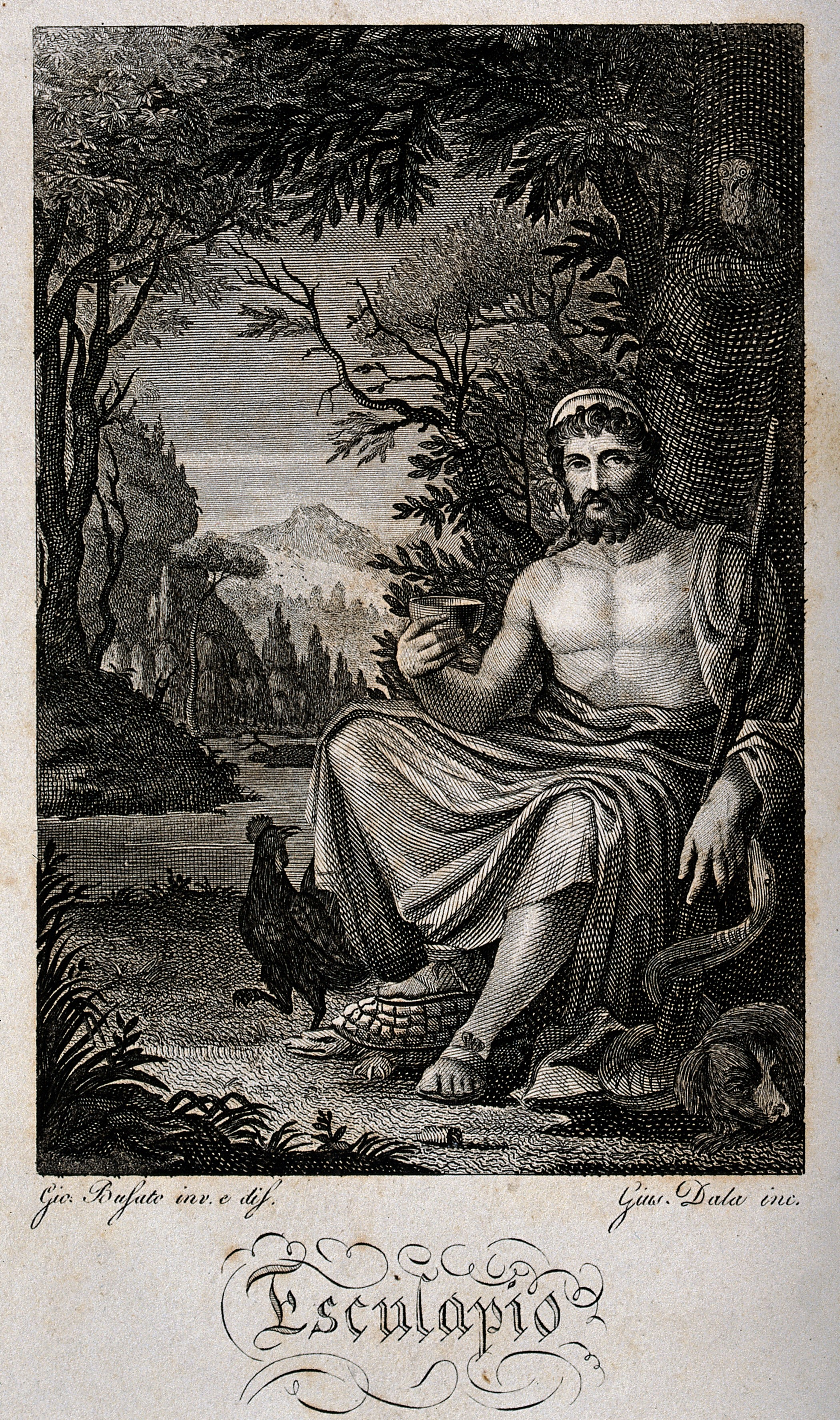 Aesculapius. Engraving by G. Dala after G. Busato. Iconographic Collections